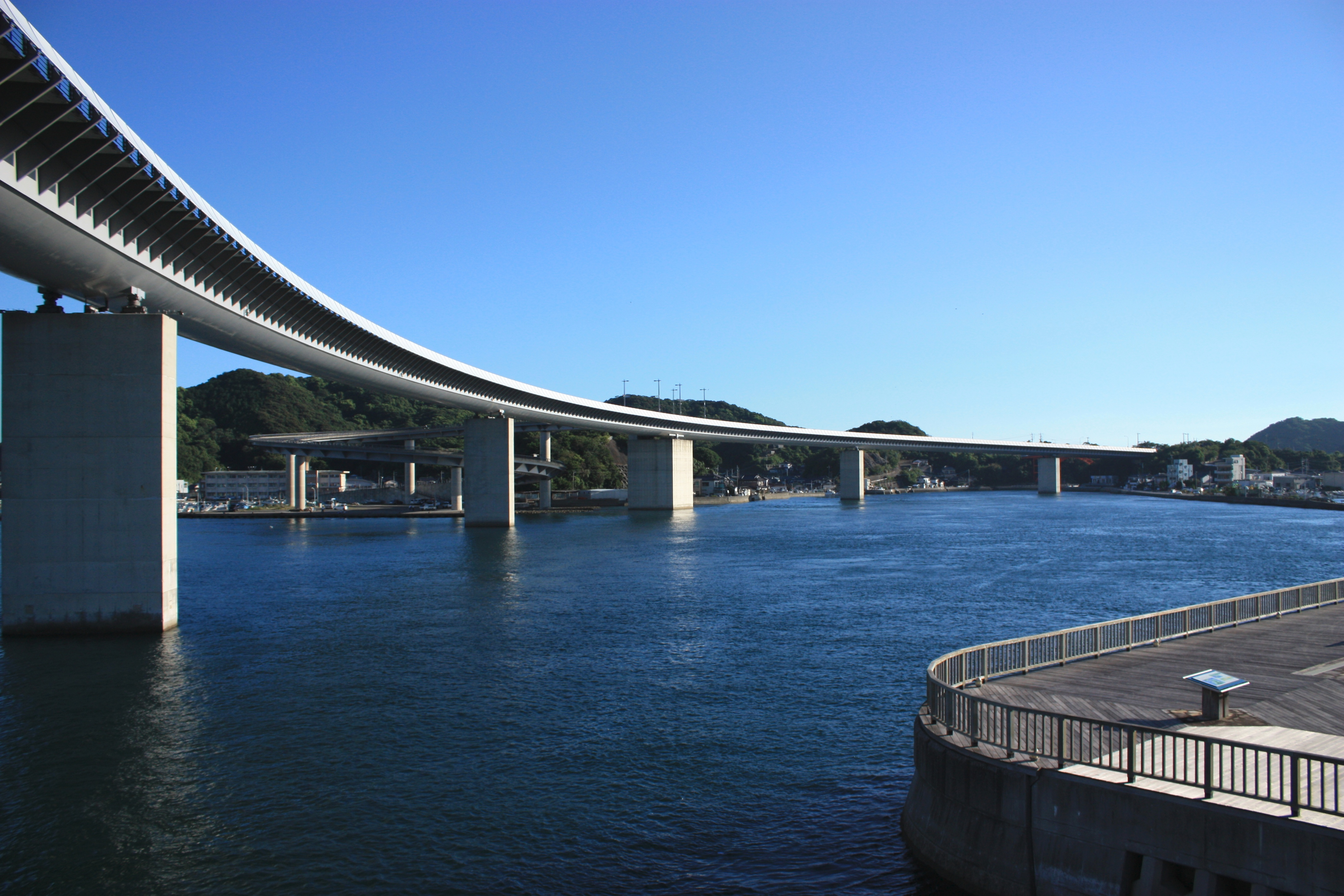 The Ushibuka Haiya Bridge in Ushibuka, Kumamoto prefecture, Japan